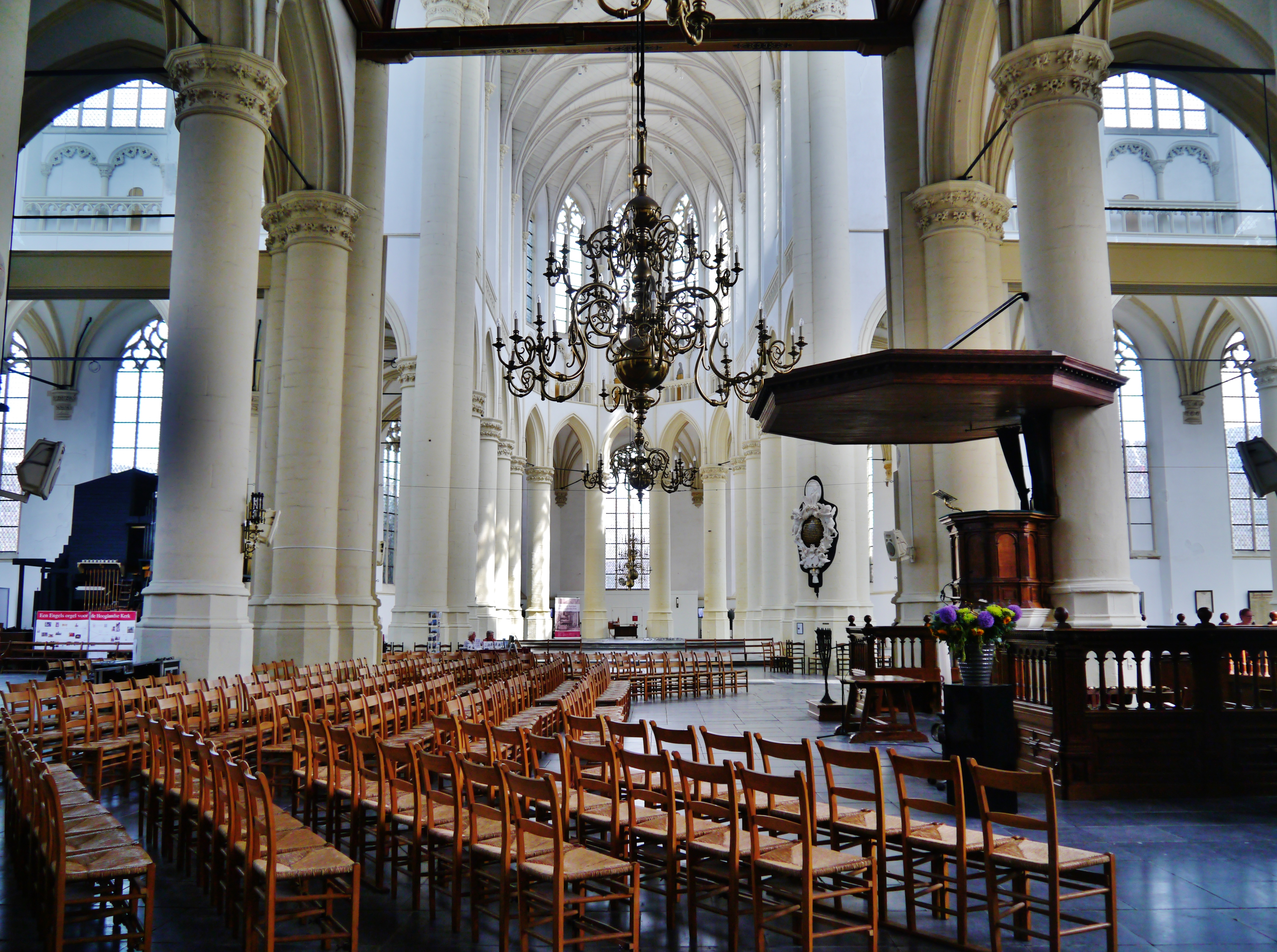 Nave of the Hoogland Church, Leiden, Province of South Holland, Netherlands